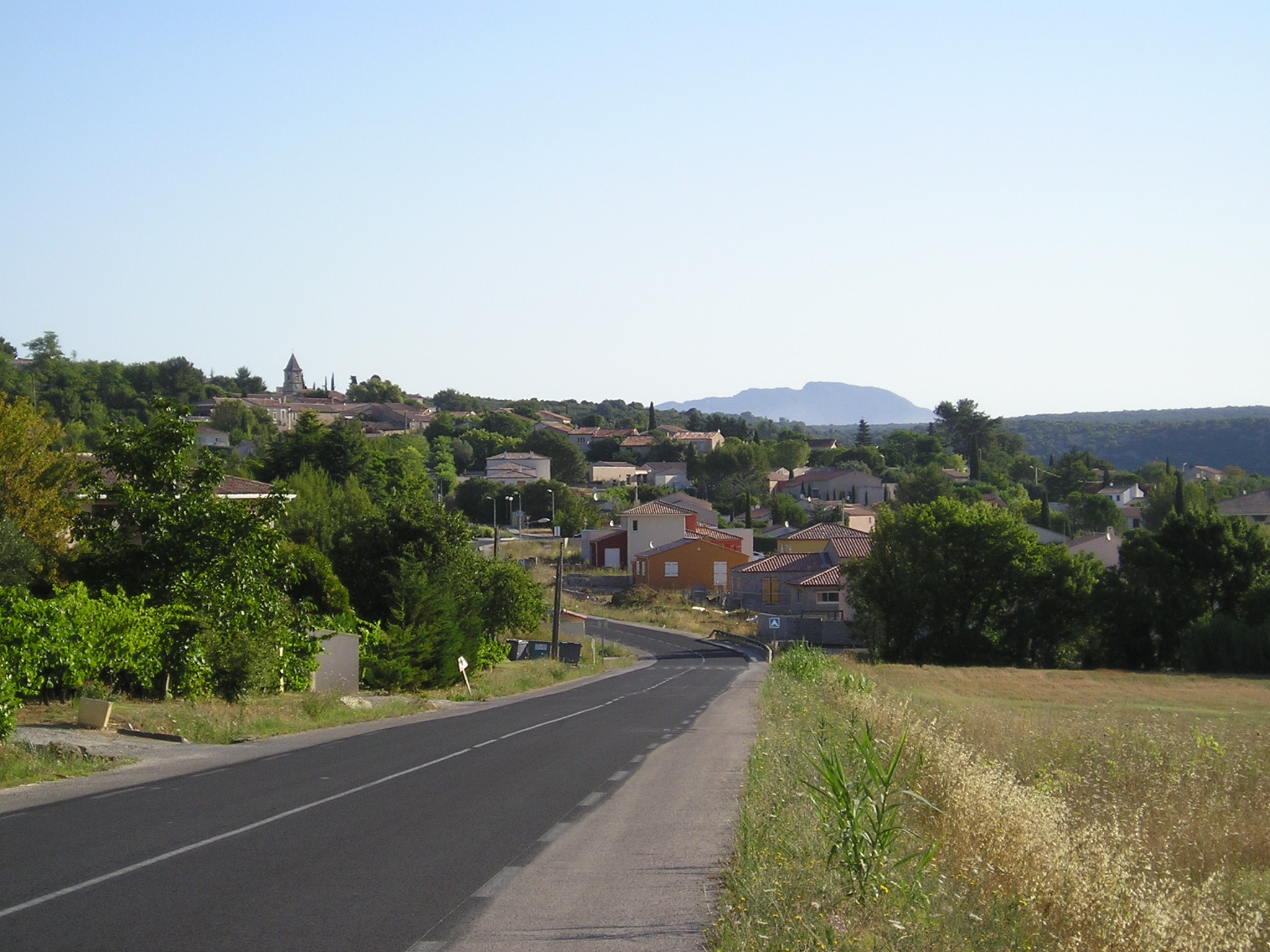 In Hérault, France, Vailhauquès viewed from the south of the village and La Coste's bus stop. In the far background, the Pic Saint-Loup whose summit stand north-east at circa 14.5 kilometers from photographer.